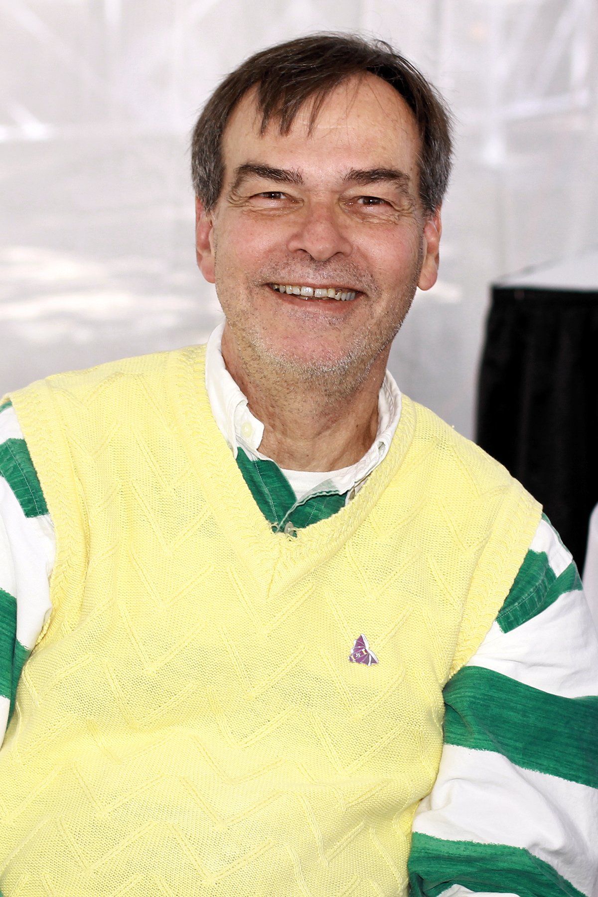 Author James L. Haley at the 2019 Texas Book Festival in Austin, Texas, United States.